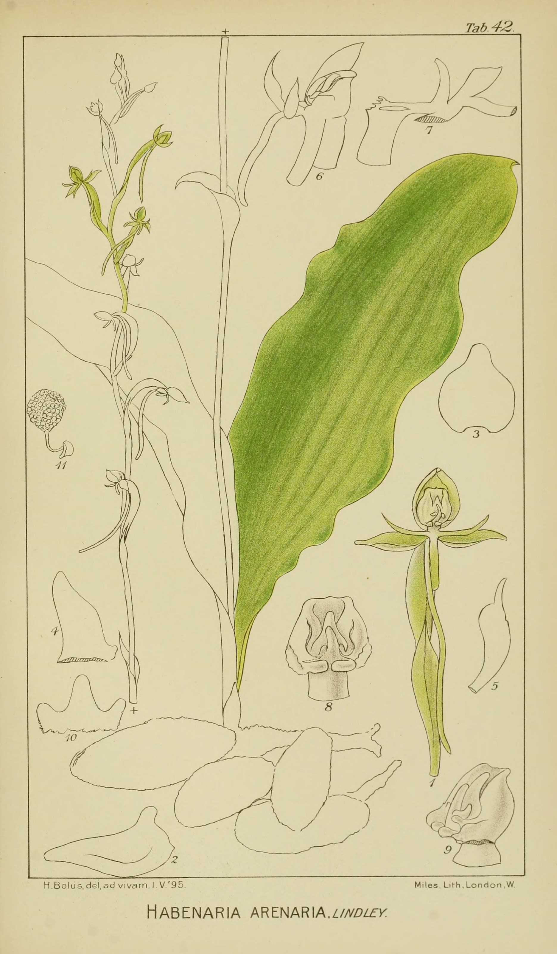 Tab.42. H. Bolus, del, ad vivam. I . V.'95. Miles, Lith London ,W Habenaria NRU^^R\^,LINDL£Y.